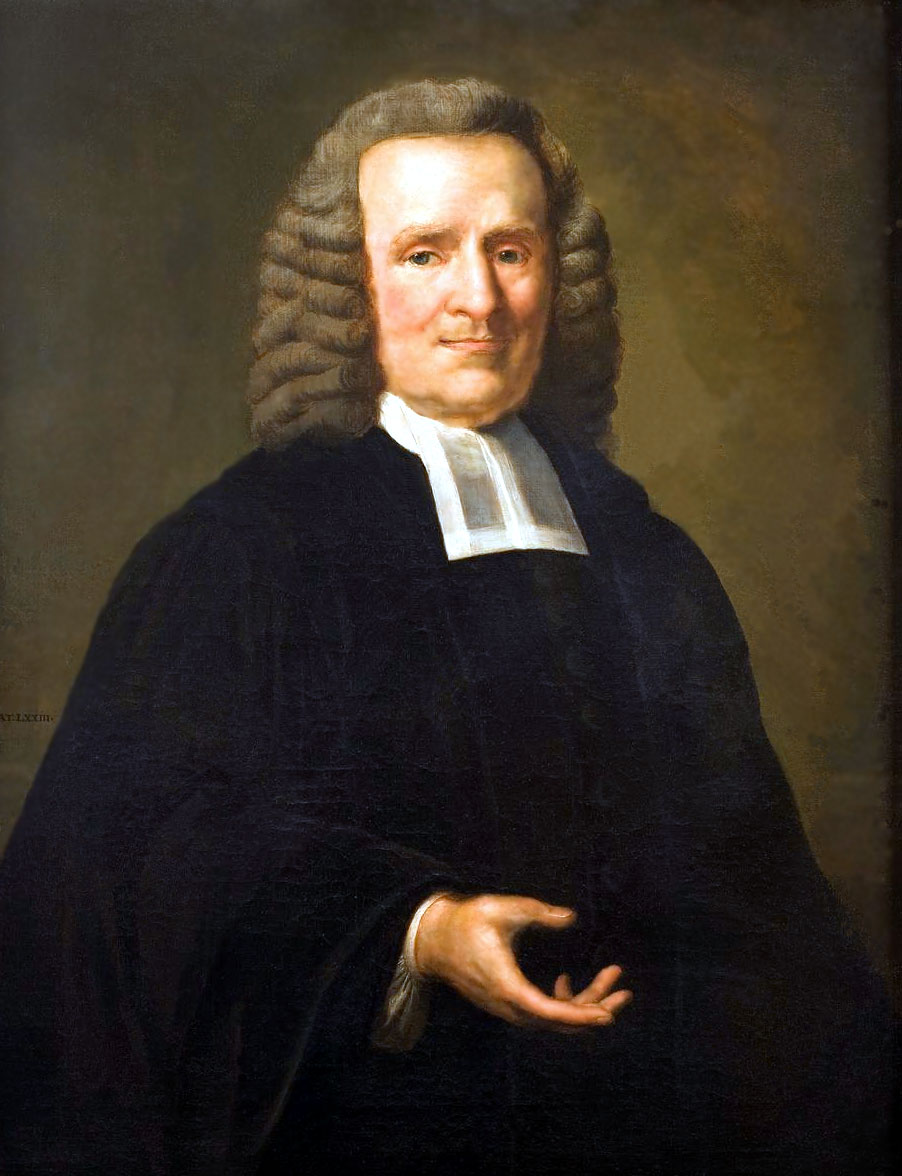 Aegidius Gillissen (1712-1800) Dutch Reformed theologian